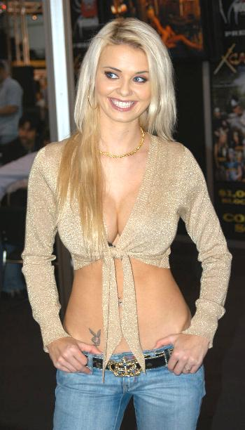 Caylian Curtis at the 2007 AVN Adult Entertainment Expo in Las Vegas